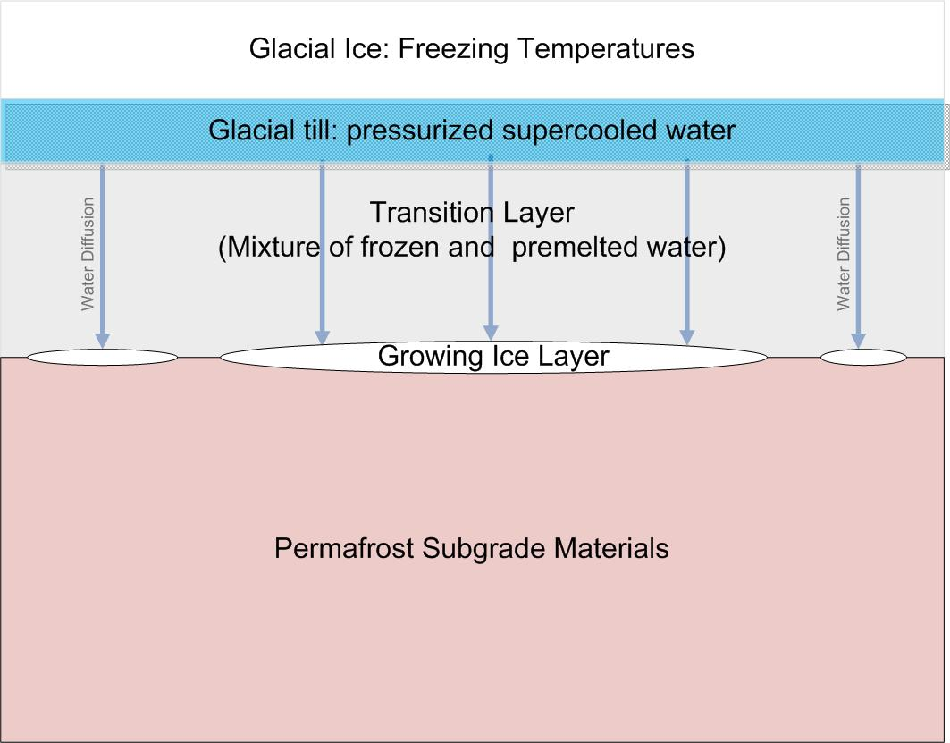 For use with article being written on ice lenses. Derived from information in: Dash2006 - Dash, G.,; A. W. Rempel, J. S. Wettlaufer (2006). "The physics of premelted ice and its geophysical consequences". Rev. Mod. Phys. 78 (695). American Physical Society. Retrieved on 30 November 2009. Murton2006 - Murton, Julian B.; Peterson, Rorik & Ozouf, Jean-Claude (17 November 2006). "Bedrock Fracture by Ice Segregation in Cold Regions". Science 314 (5802): 1127 - 1129. Retrieved on 30 November 2009. Rempel2007 - Rempel, A.W. (2007). "Formation of ice lenses and frost heave". Journal of Geophysical Research 112 (F02S21). American Geophysical Union. Retrieved on 30 November 2009. Rempel2008 – Rempel, A. W. (2008). "A theory for ice-till interactions and sediment entrainment beneath glaciers". Journal of Geophysical Research: F01013. American Geophysical Union.. Retrieved on 30 November 2009. Peterson2008 - Peterson, R. A.,; Krantz , W. B. (2008). "Differential frost heave model for patterned ground formation: Corroboration with observations along a North American arctic transect". Journal of Geophysical Research 113: G03S04. American Geophysical Union.. Retrieved on 30 November 2009., Walder1985 - Walder, Joseph; Hallet, Bernard (March 1985). "A theoretical model of the fracture of rock during freezing". Geological Society of America Bulletin 96 (3): 336-346. Geological Society of America.. 10.1130/0016-7606(1985)96 2.0.CO;2. Retrieved on 30 November 2009.